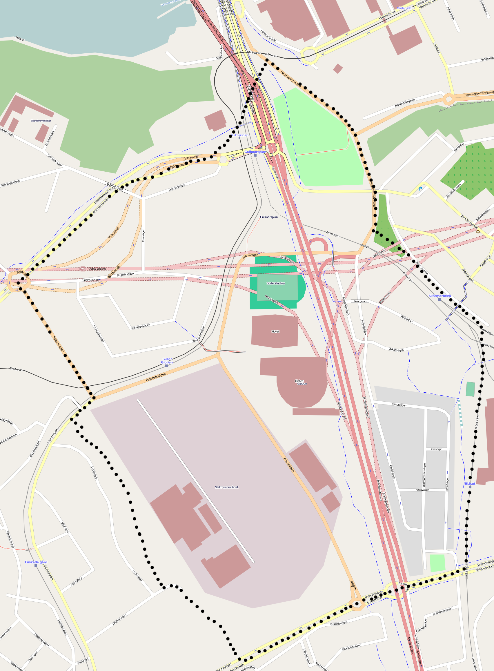 Distric of Johanneshov in Stockholm municipality, Stockholms county, Sweden